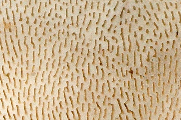 Trametes gibbosa from Commanster, Belgium. The determination of the species shown in this picture has been verified.